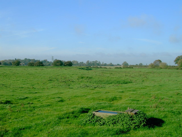 Wyberts Castle, site of The site of a 12th or 13th century moated motte and bailey castle. All that remains are the undulations of a moat and island feature. The site was excavated in 1959 which showed signs of a stone dwelling together with pottery. The site is of listed importance.